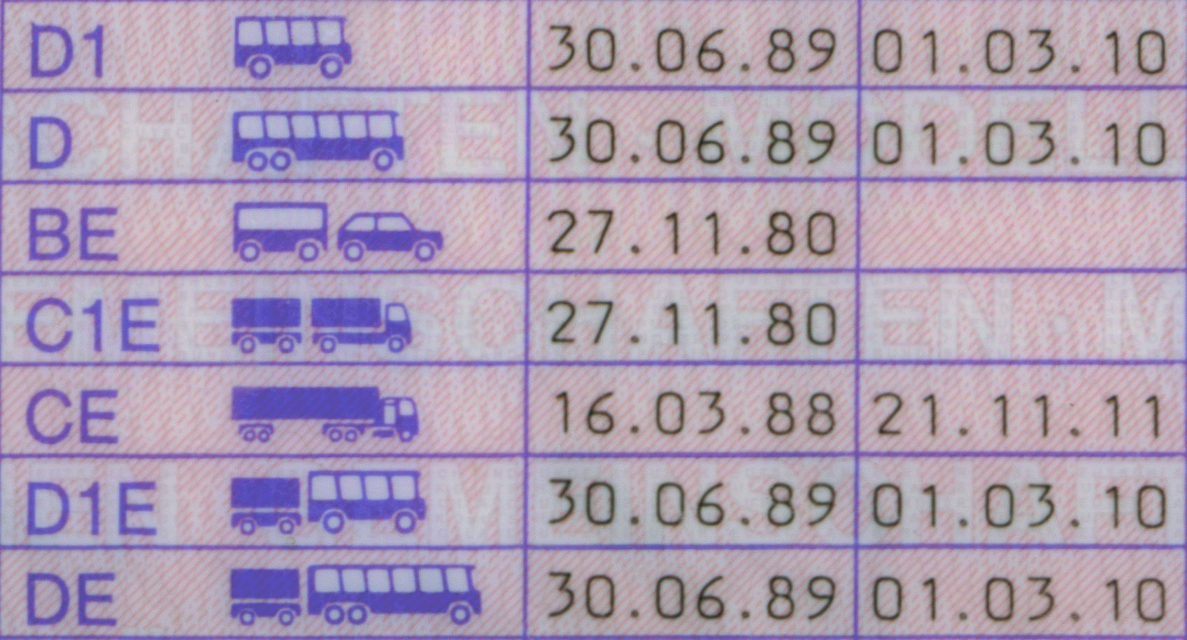 driving licence, German, EU-model, reverse side, detail (buses and coaches)